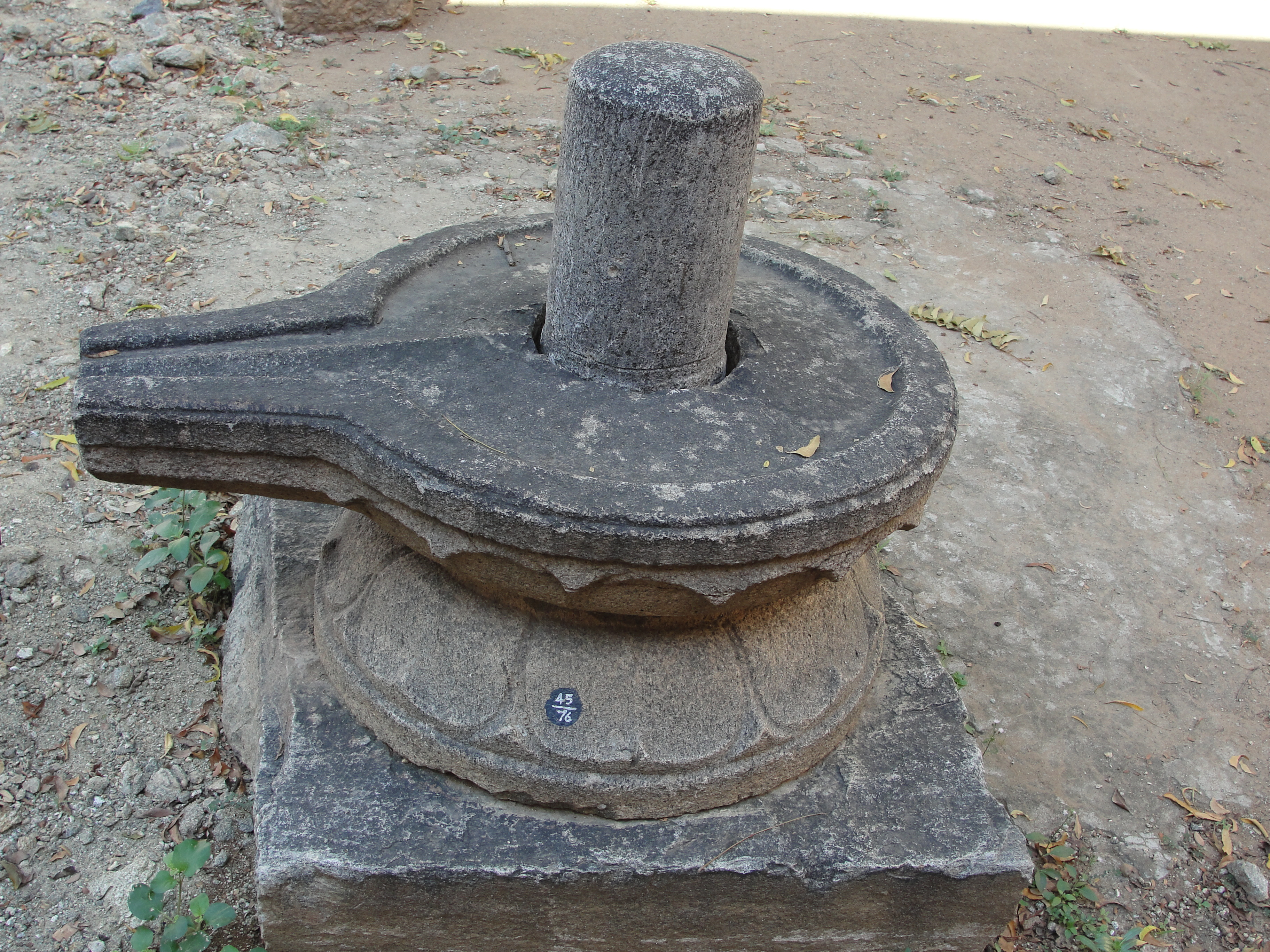 A Sivalingam with Peedam. An exhibit in Salem district museum, Tamil Nadu, India.